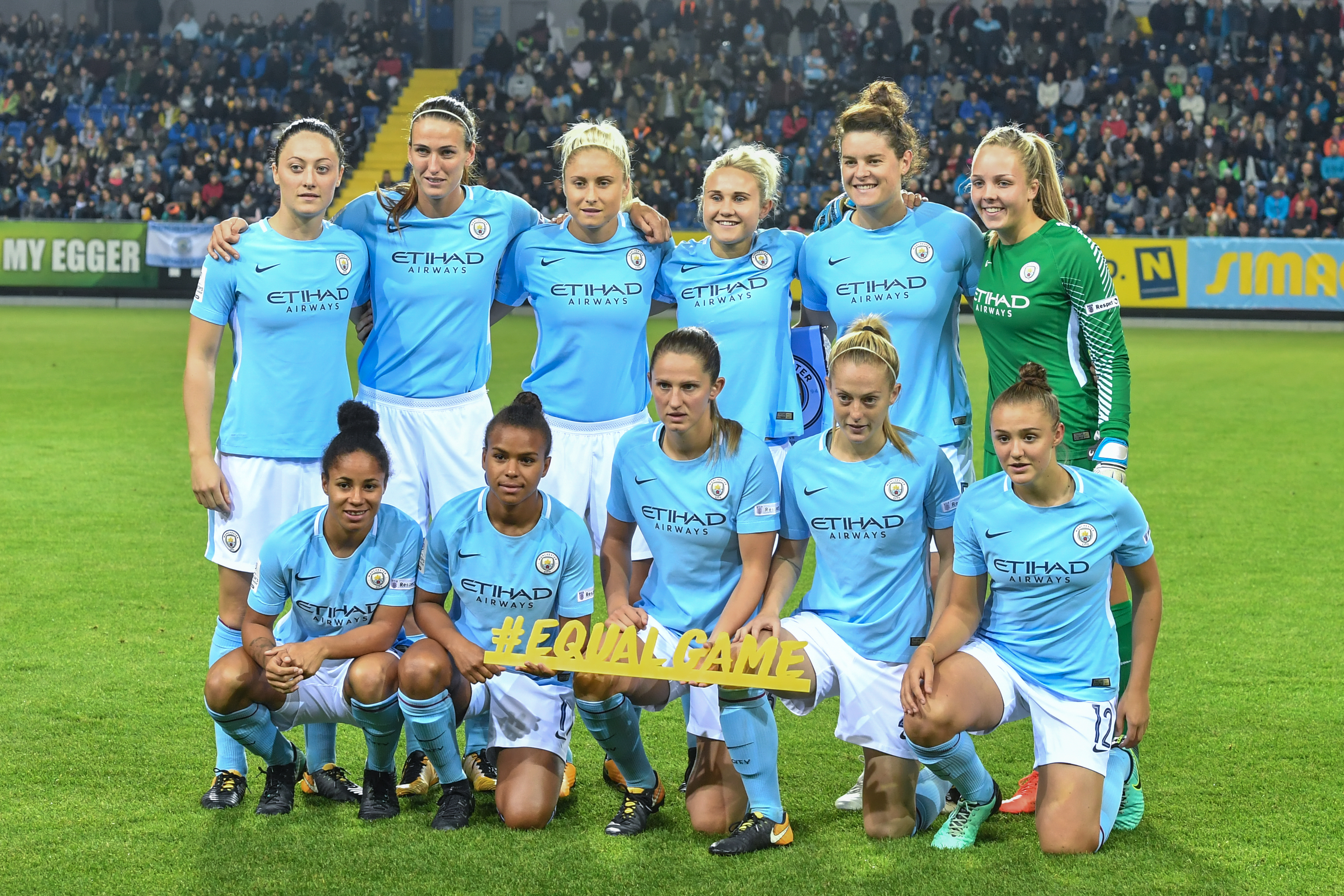 4/10/17, St. Poelten, Austria, sports, soccer, UEFA Women's Champions League - SKN St. Poelten vs Manchester City.